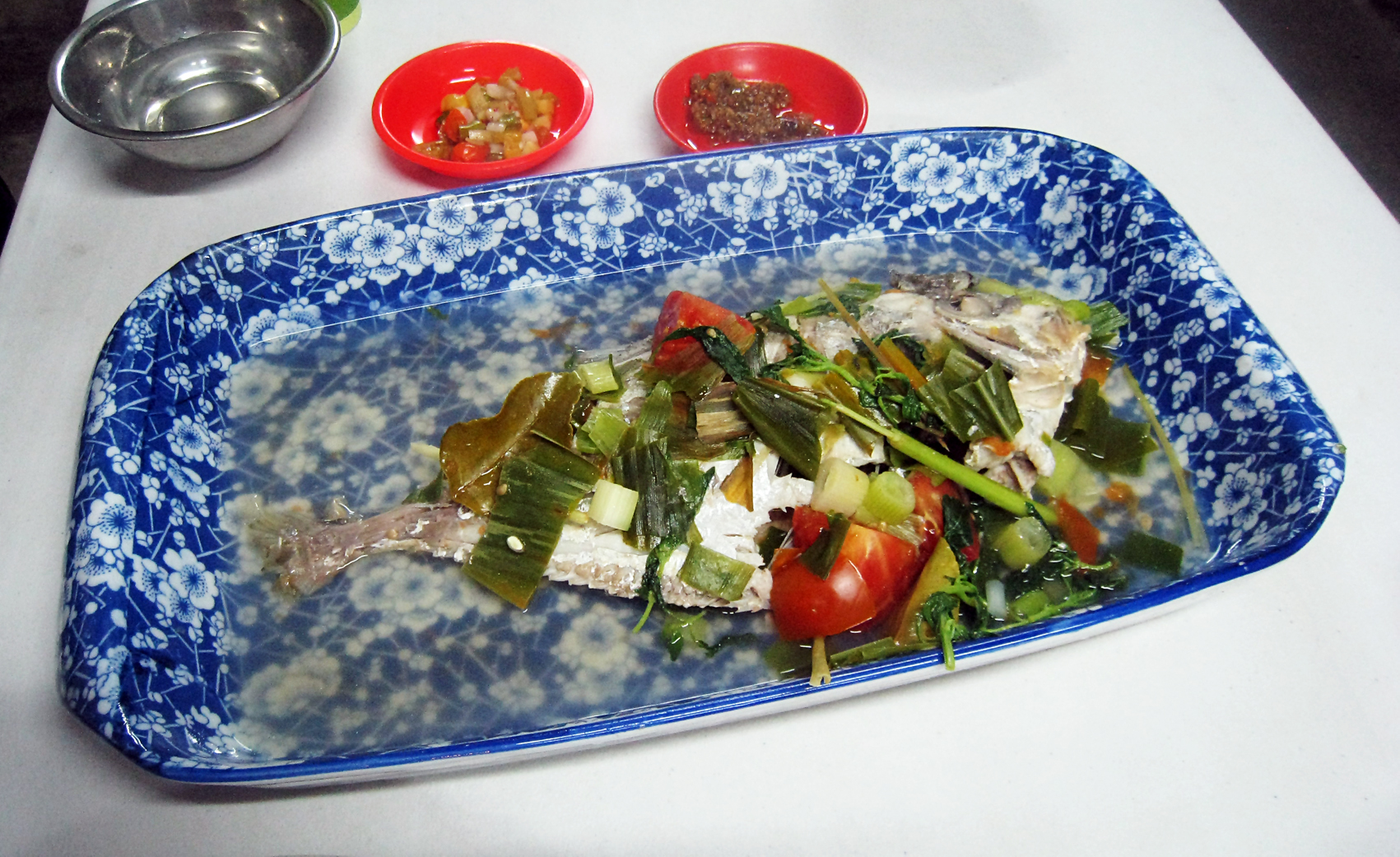 Bobara or Kuwe Kuah Asam (trevally in sour soup), a Manado cuisine sour and spicy seafood soup. Indonesia.